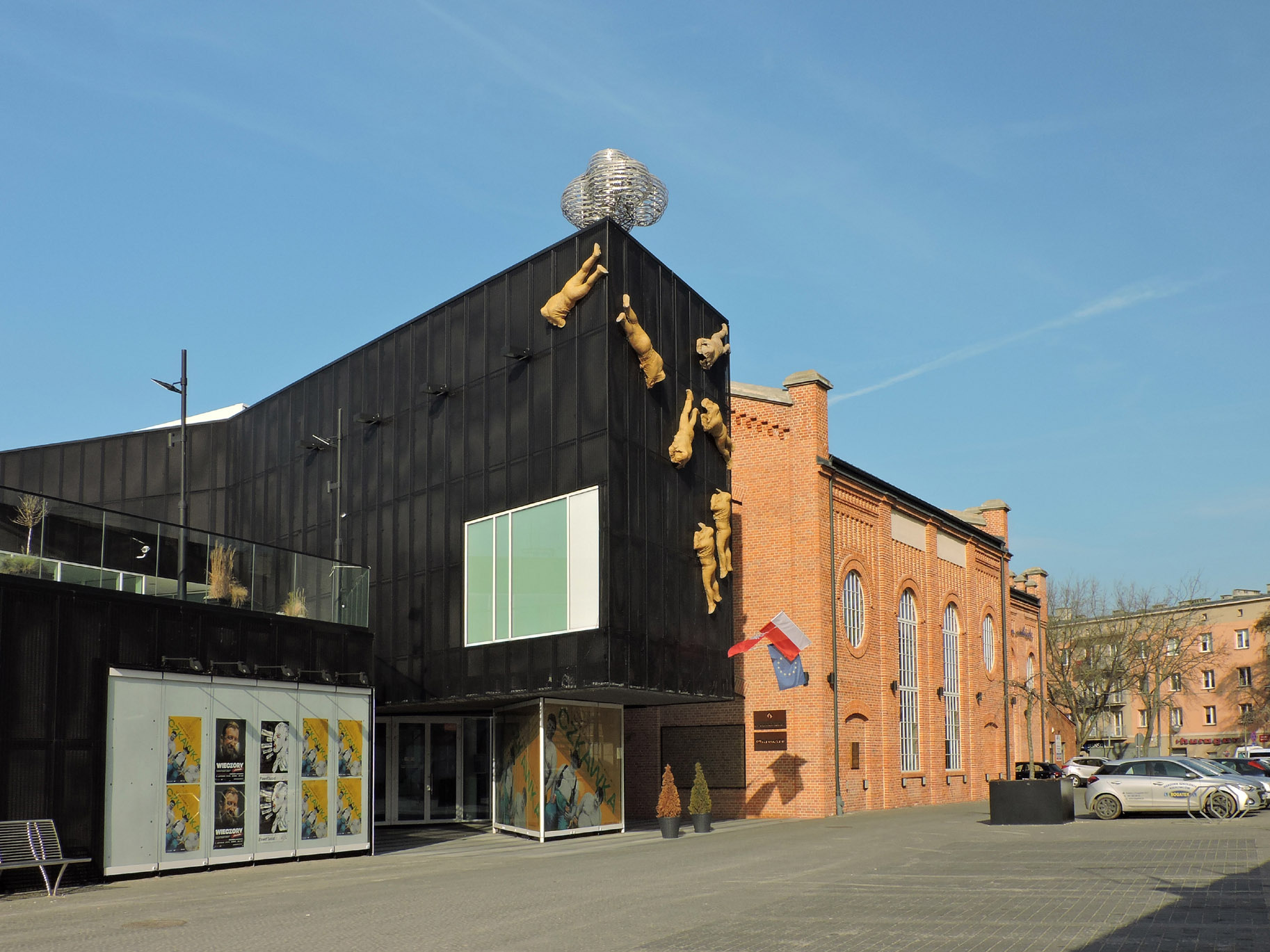 Centre for Contemporary Art "Elektrownia", Radom, Poland